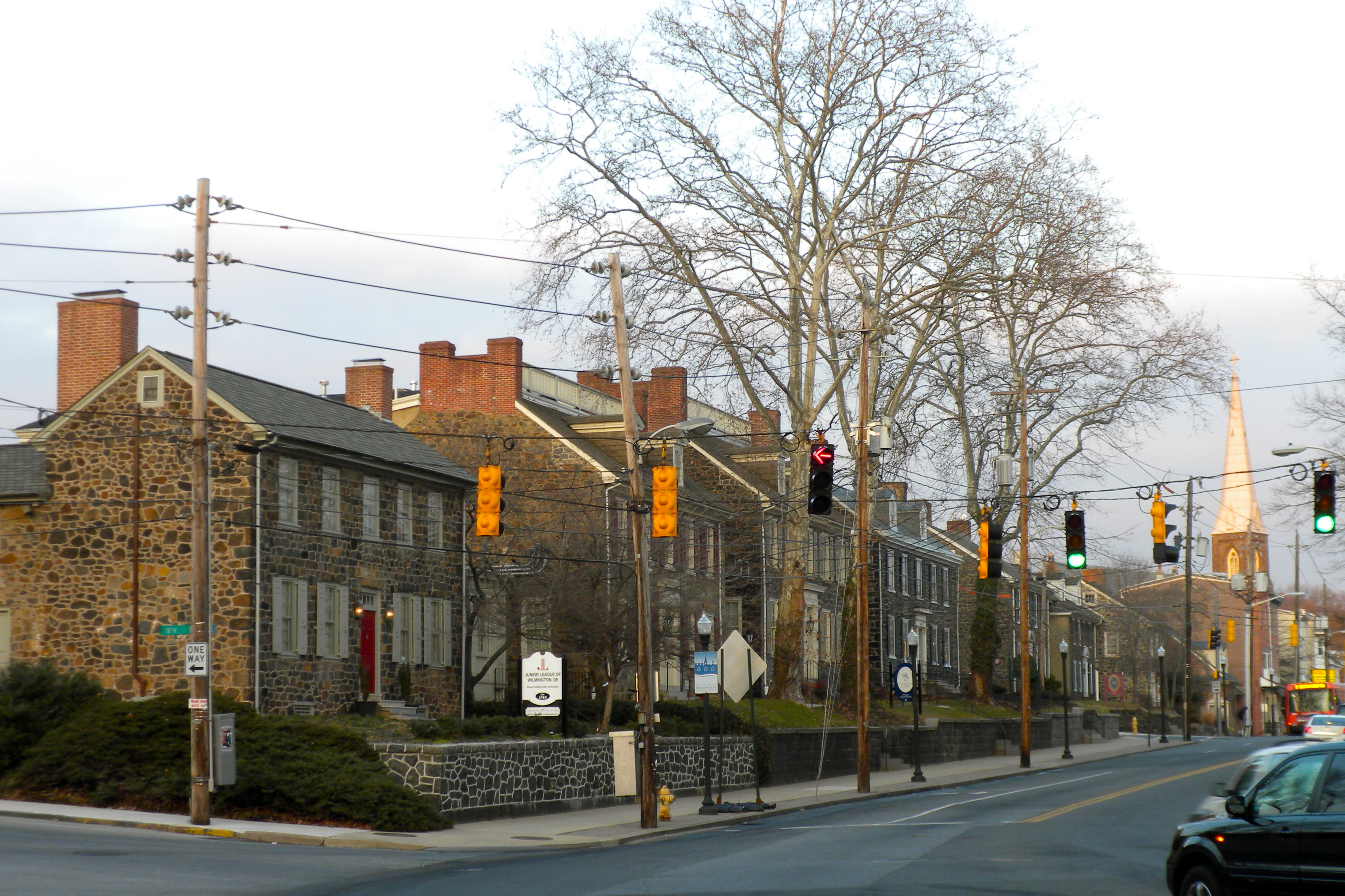 Brandywine Village Historic District in Wilmington, Delaware. On NRHP. This is the north side of Market Street taken from the Market Street Bridge across the Brandywine. HD roughly bounded by Brandywine Creek, Tatnall, 22nd, Gordon Sts., Vandever Ave., Mabel St., and the 14th St. bridge